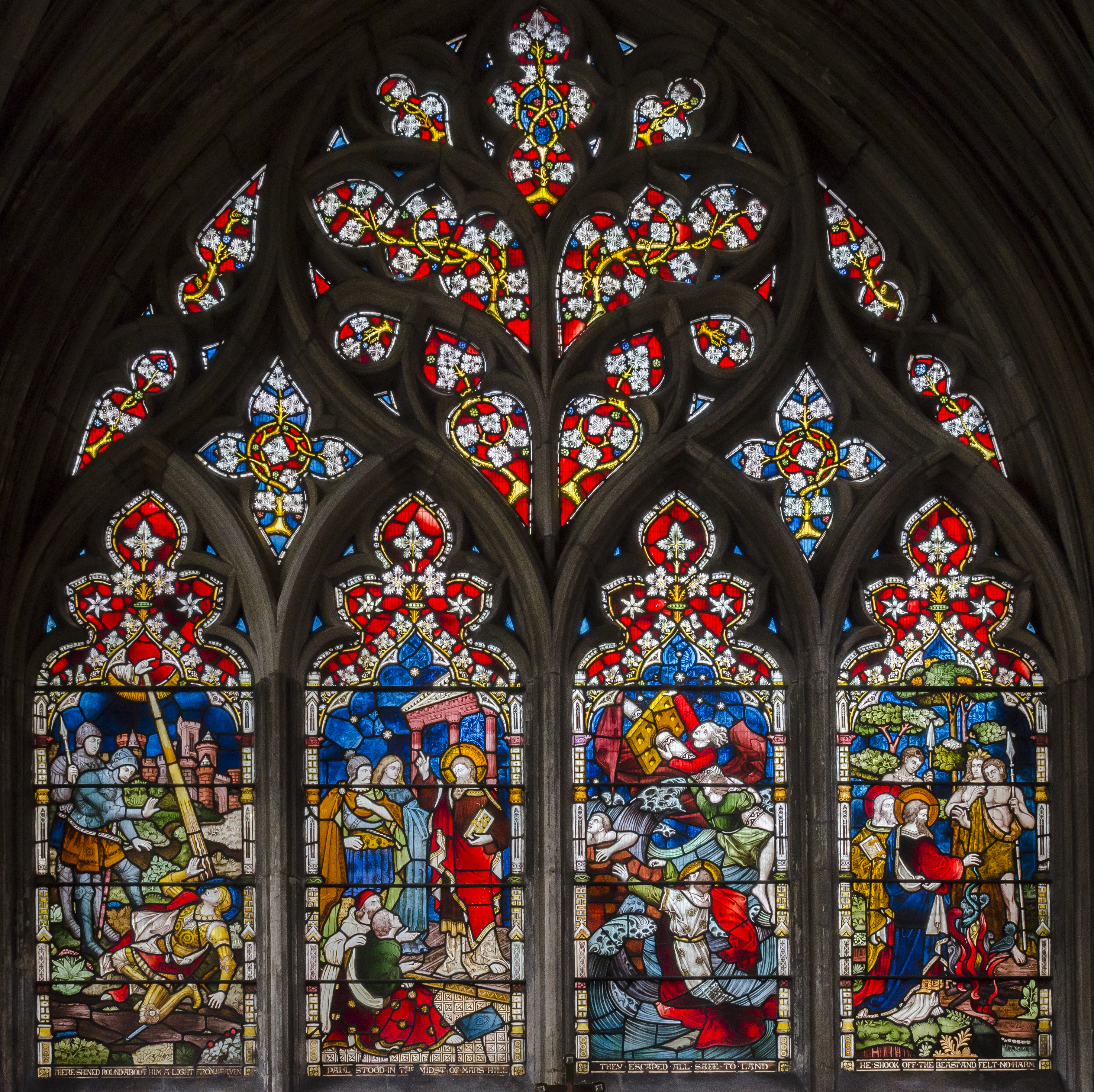 St Mary's Church, Beverley, East Riding of Yorkshire, England.A window by Clayton & Bell depicting the life of St Paul. Located at the east end of the north aisle.